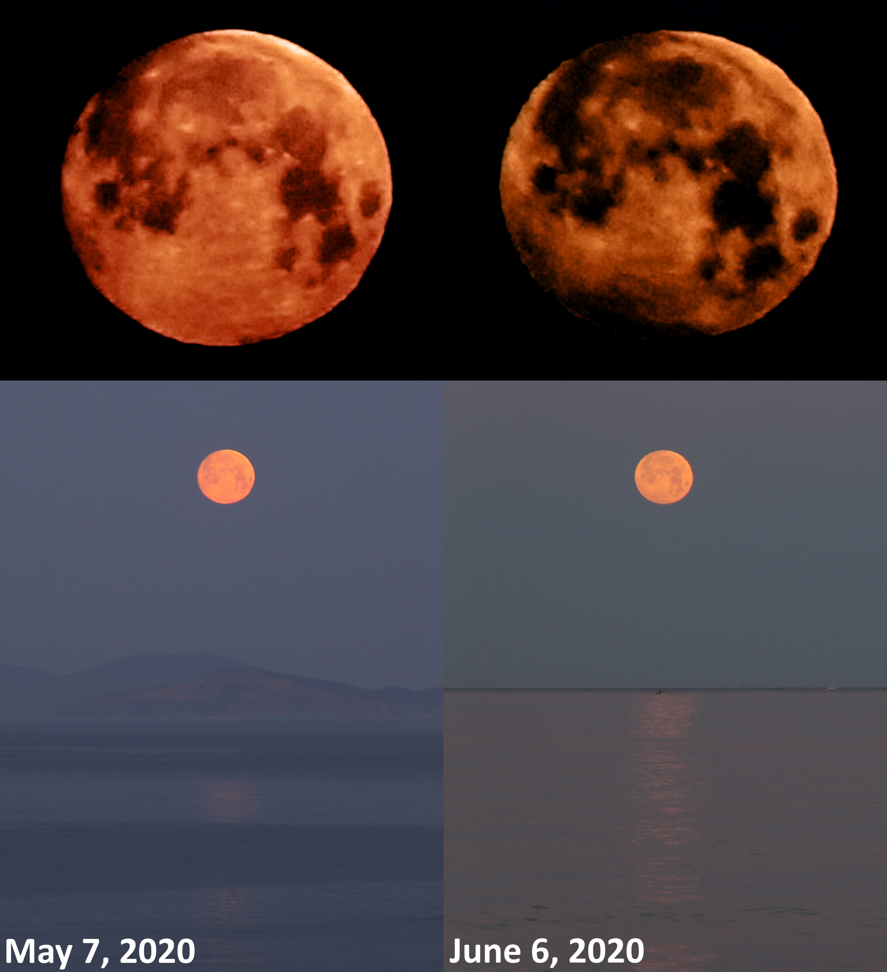 Collage from my comparative photographs of the Moon for two dates: landscape originals (bottom) and resized images of the Moon (at the top) with altered contrast (for better visibility of the eclipse).